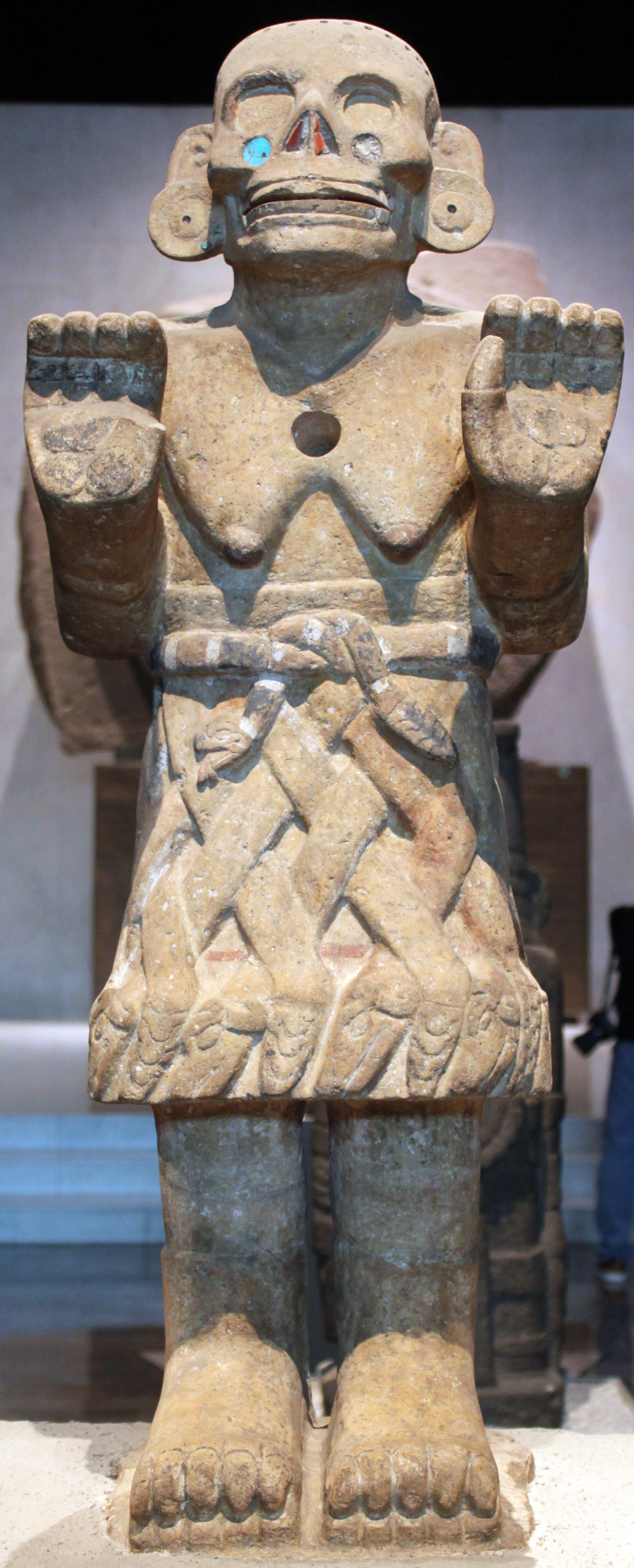 Coatlicue (Nahuatl as "Rock of the snake," Aztec earth goddess) statue from Coxcatlán, Puebla, shown in the National Museum of Anthropology, Mexico City